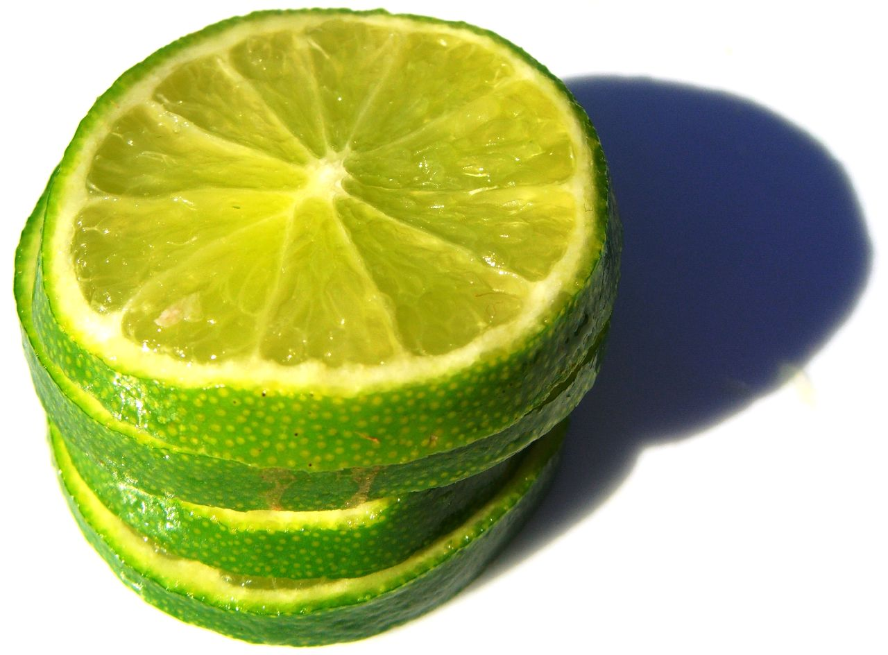 Sliced limes.